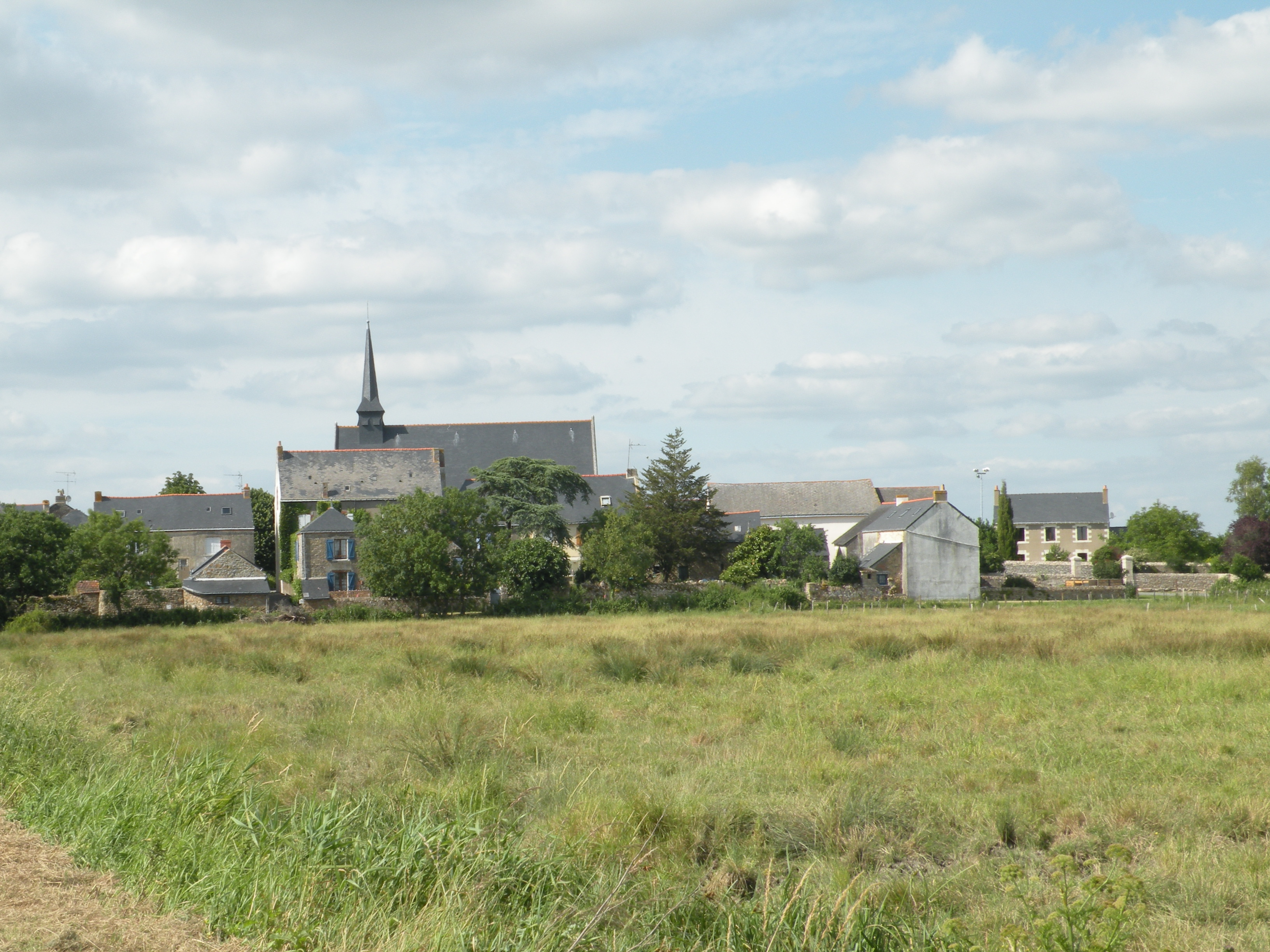 The village of Lavau-sur-Loire seen from the South.